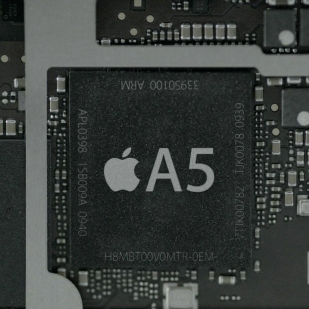 Apple A5 Chip in iPad Mini